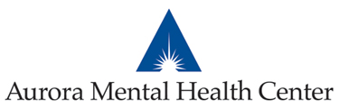 Aurora Mental Health Center Logo